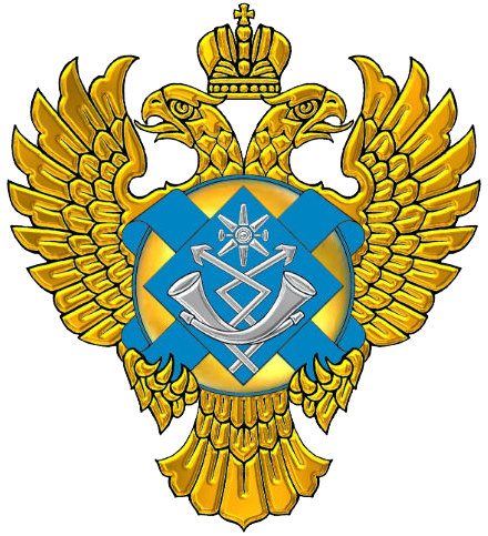 Emblem of Russian Federal Communications Agency